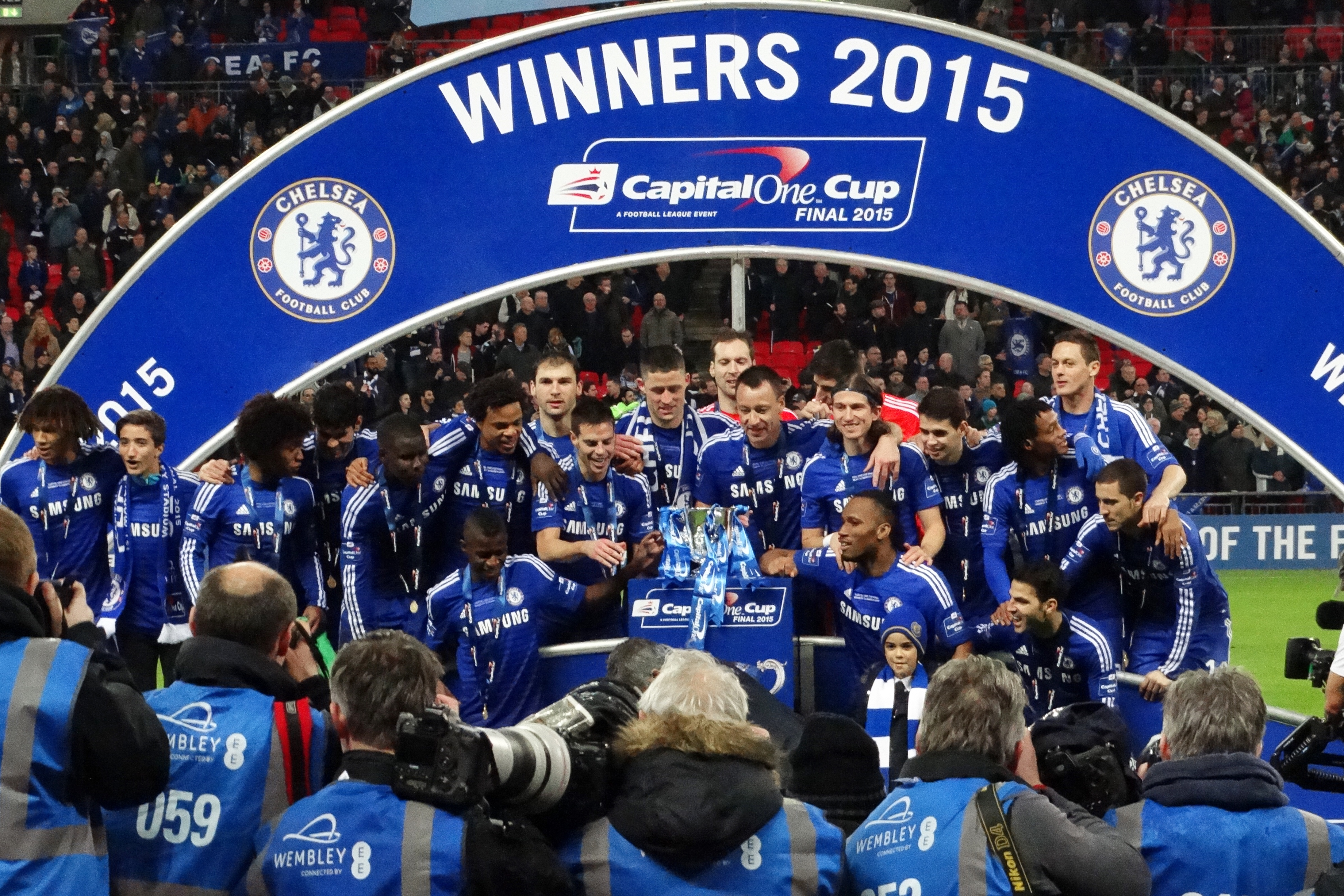 Chelsea 2 Spurs 0 - Capital One Cup winners 2015